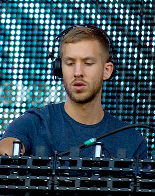 Calvin Harris in Rock in Rio Madrid 2012.